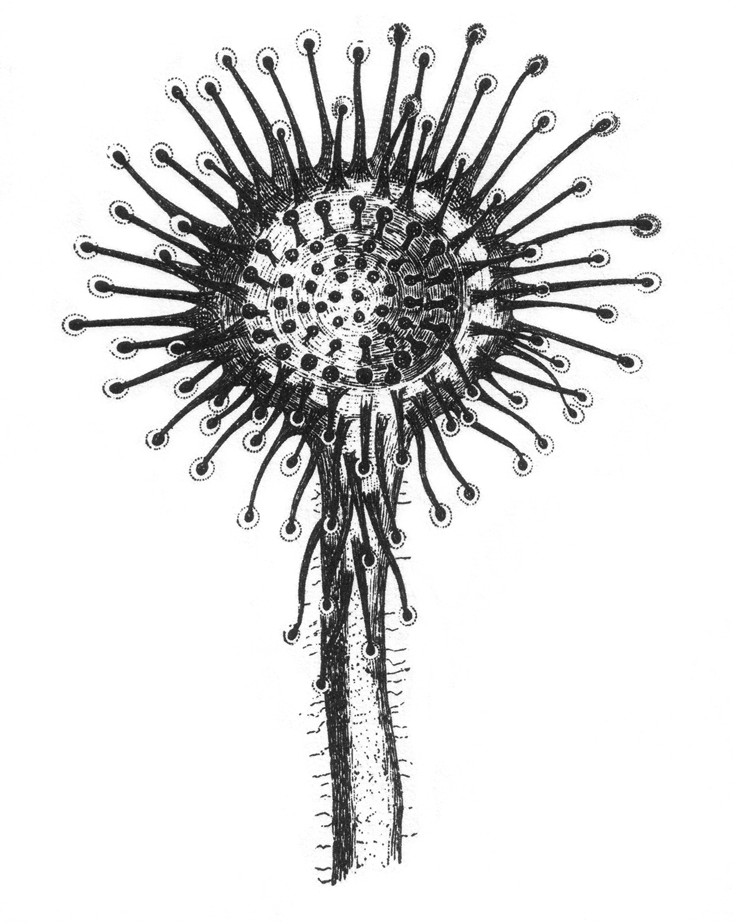 Figure 1 from Charles Darwin's Insectivorous Plants (first published 1875), showing leaf of Drosera rotundifolia. See also figures 2 through 11 of the same species. Caption reads "Fig. 12 Drosera rotundifolia Leaf viewed from above; enlarged four times." Note reads: "2 The drawings of Drosera and Dionaea, given in this work, were made for me by my son, George Darwin; those of Aldrovanda, and of the several species of Utricularia by my son Francis. They have been excellently reproduced on wood by Mr Cooper, 188 Strand." Scanned at 600dpi, grayscale, edited using curves in Adobe Photoshop to whiten background.